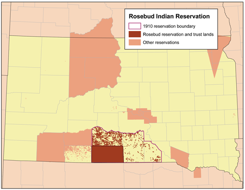 Map of the Rosebud Indian Reservation.